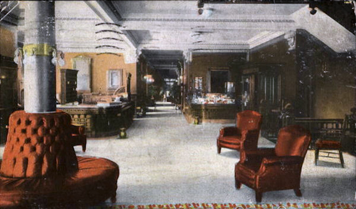 This 1912 postcard photographs shows the luxurious and elegant lobby of the Hotel Allen on the northeast corner of Center Square. On 26 October 1914, Theodore Roosevelt stayed at the Hotel Allen and spoke from the balcony of the hotel for a campaign appearance for Republican candidates for Senator and Governor of Pennsylvania.